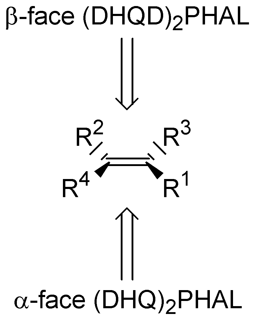 Selfmade with ChemDraw